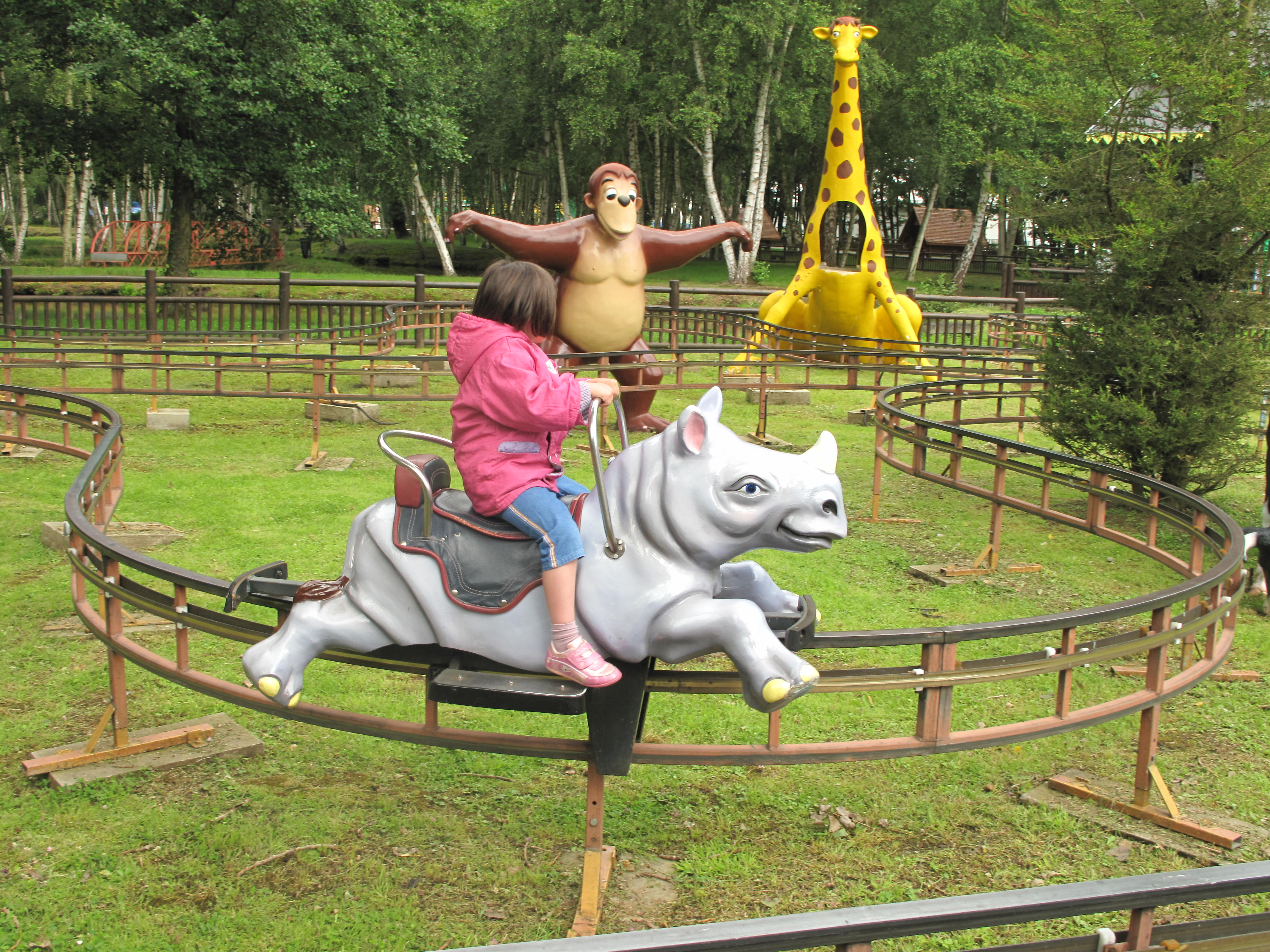 Young girl of the attraction "exotic animals" in the parc Saint-Paul, near Beauvais (Oise, France).